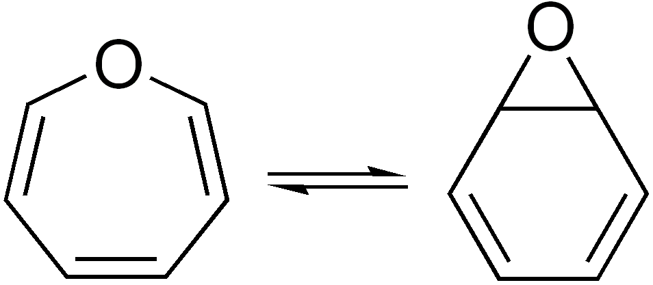 diagram showing equilibrium between oxepin and benzene oxide